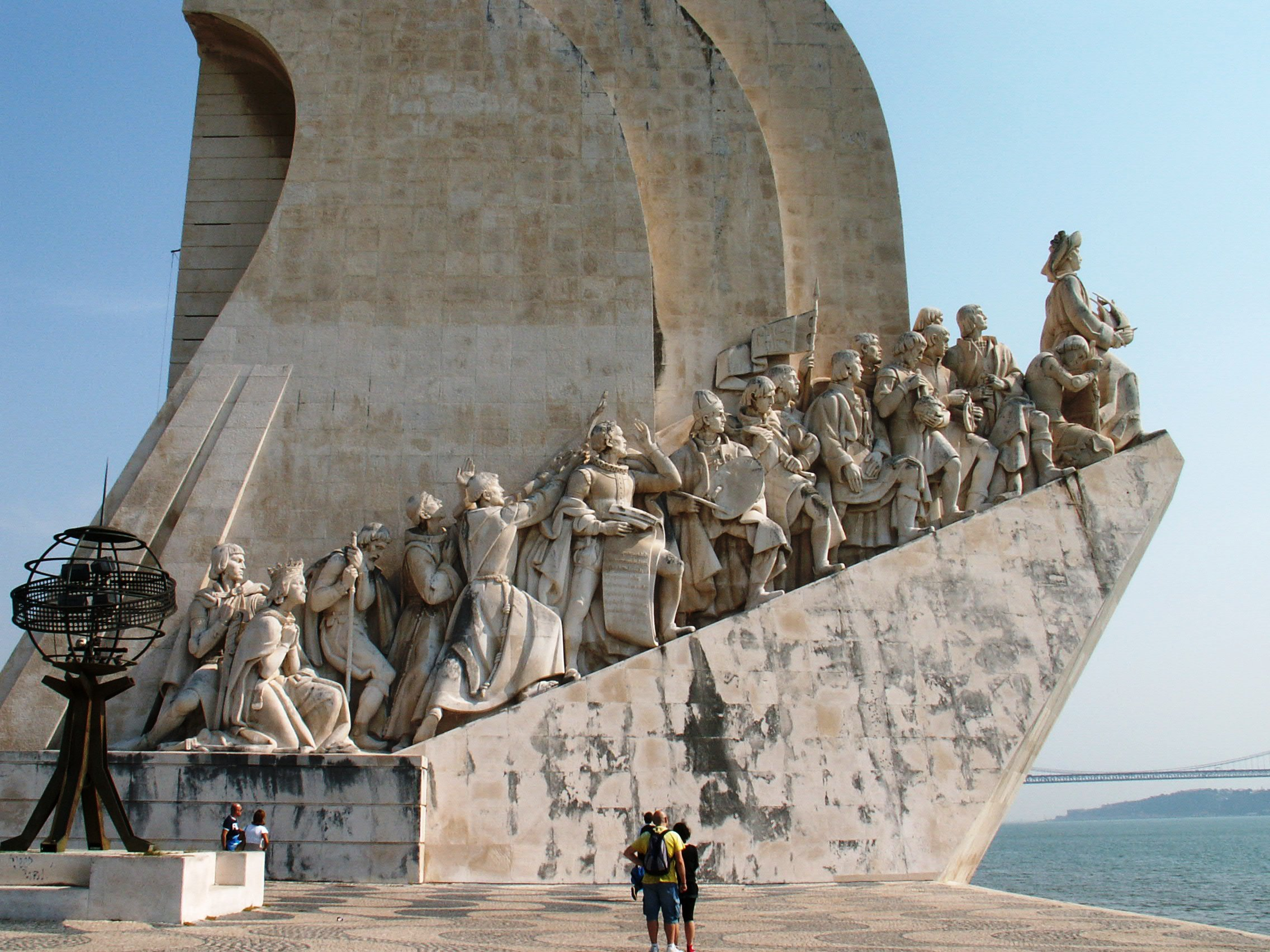 Henry's ship